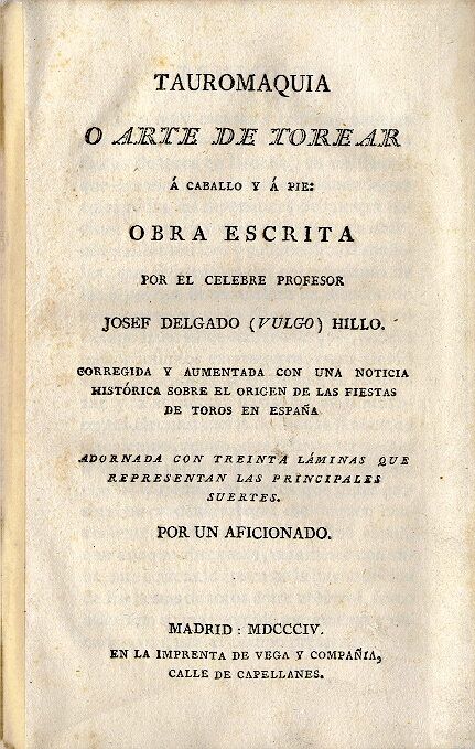 "Tauromaquia" (Rules of spanish bullfight) by José Delgado y Galvez, title page.